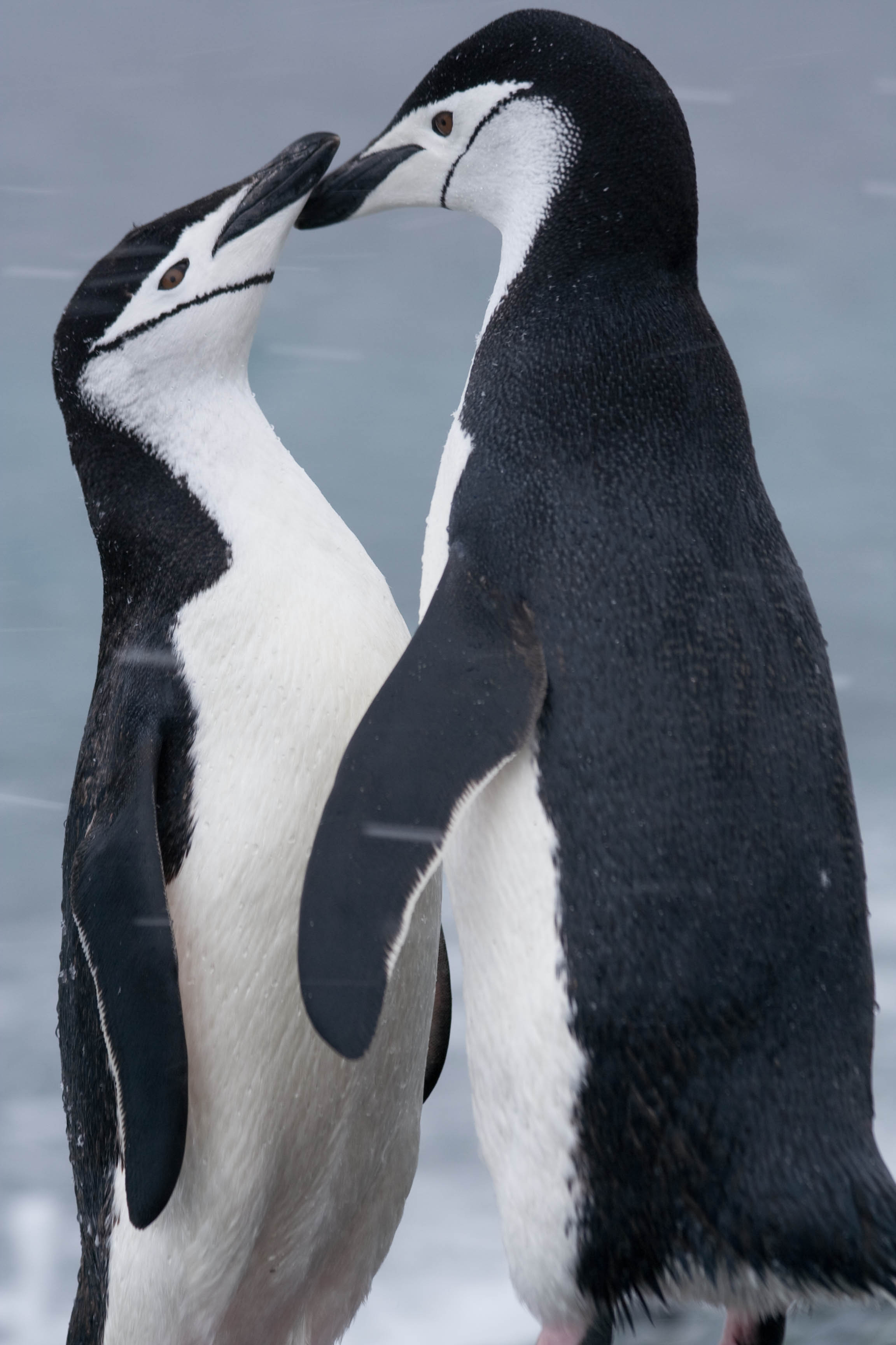 Pygoscelis antarcticus pair, Laurie Island, South Orkney Islands.